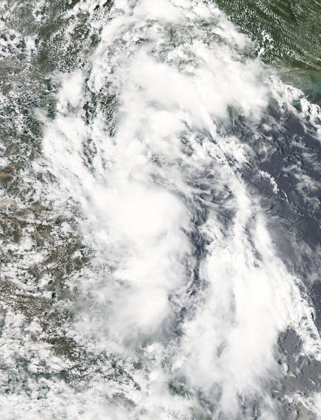 Tropical Depression Two on July 8, 2010